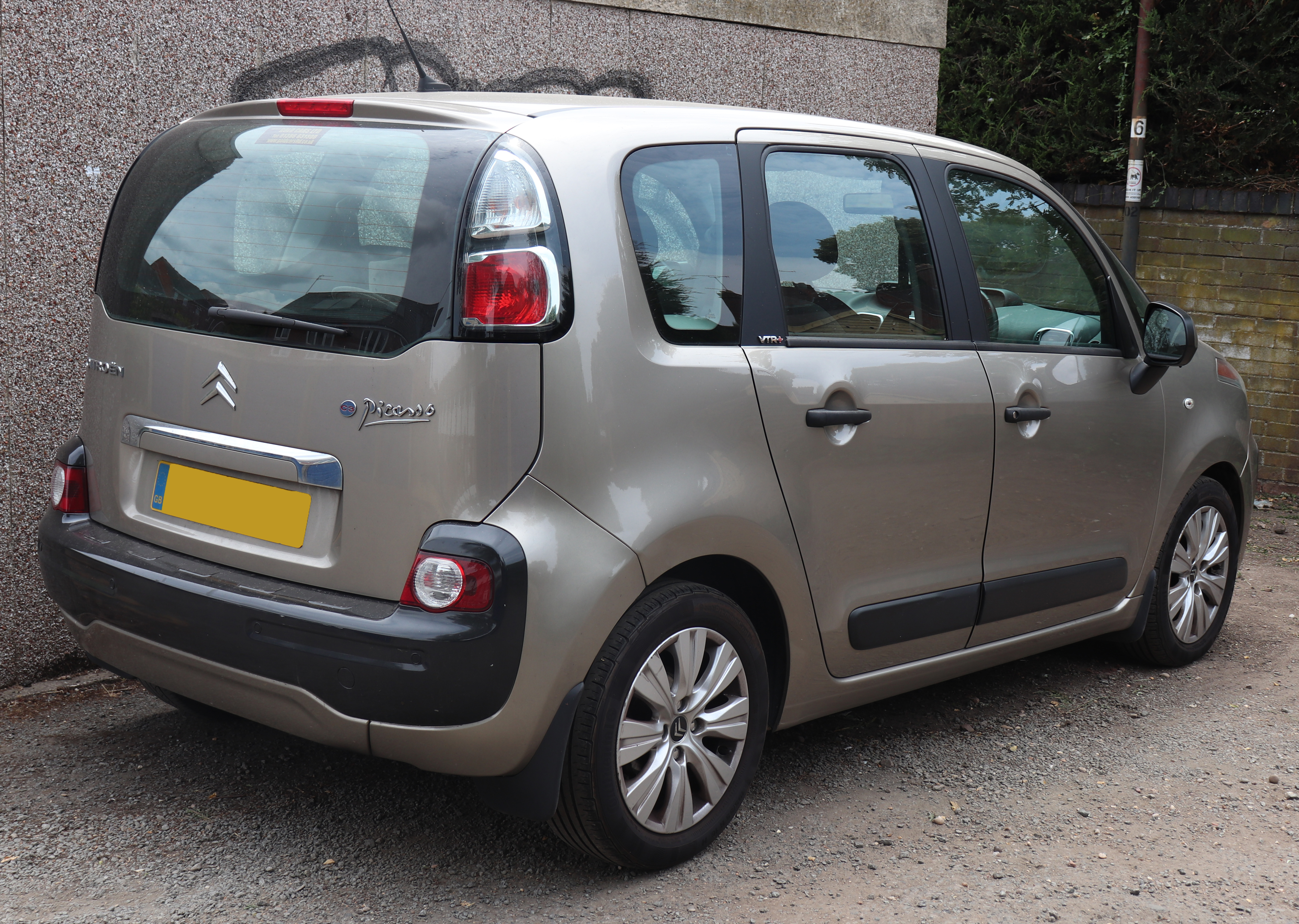 2010 Citroen C3 Picasso VTR Plus HDi 1.6 Rear Taken in Warwick